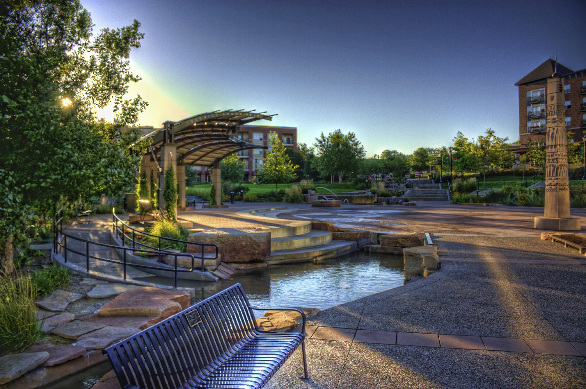 Heart of the City centerpiece; Burnsville, Minnesota.